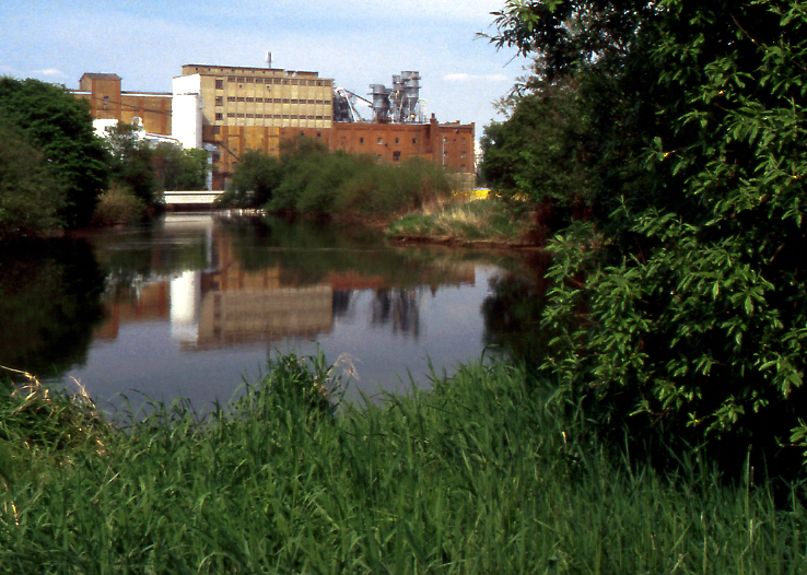 The "Calenberger Mühle" is a former water mill in Schulenburg, town Pattensen, Lower Saxony, Germany. Today it is a hydroelectric power plant.